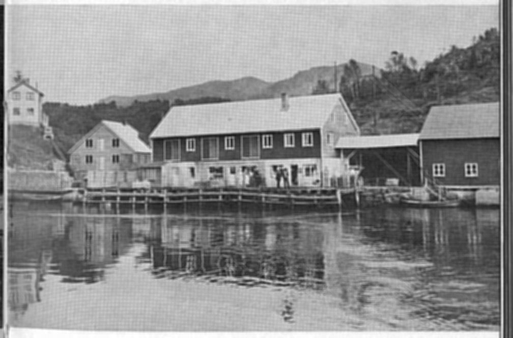 The quay structure, storehose and shop rebuilt after the fire in 1960. Gjølanger, Dale parish, Sogn og Fjordane county, Norway. Photographer unknown. about 1951.